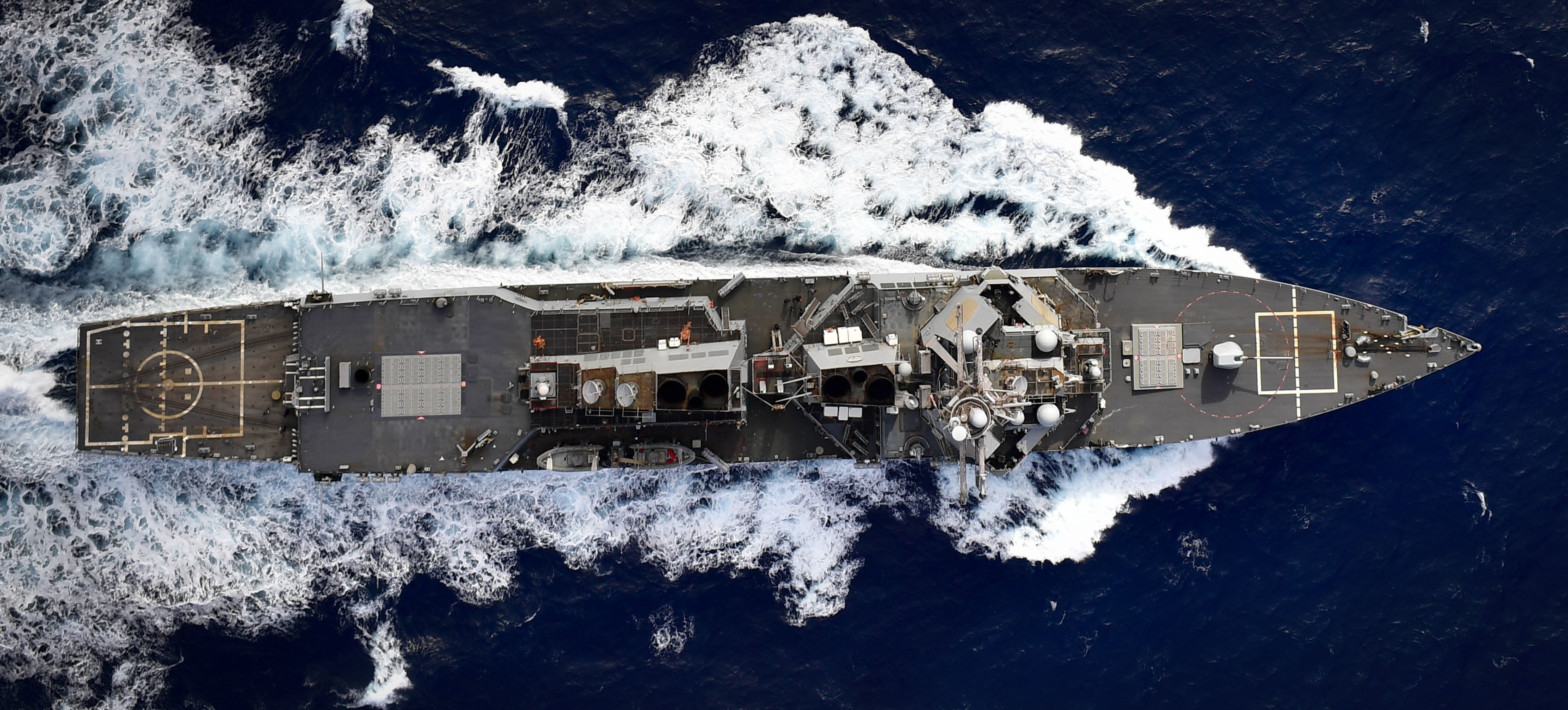 The guided-missile destroyer USS Oscar Austin (DDG 79) transits the Atlantic Ocean Nov. 7, 2017. The Oscar Austin is on a routine deployment supporting U.S. national security interests in Europe, and increasing theater security cooperation and forward naval presence in the U.S. 6th Fleet area of operations. (U.S. Navy photo by Mass Communication Specialist 2nd Class Ryan Utah Kledzik)